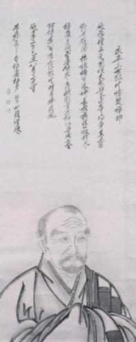 Image of Koun Ejō, a 13th century Japanese Zen monk